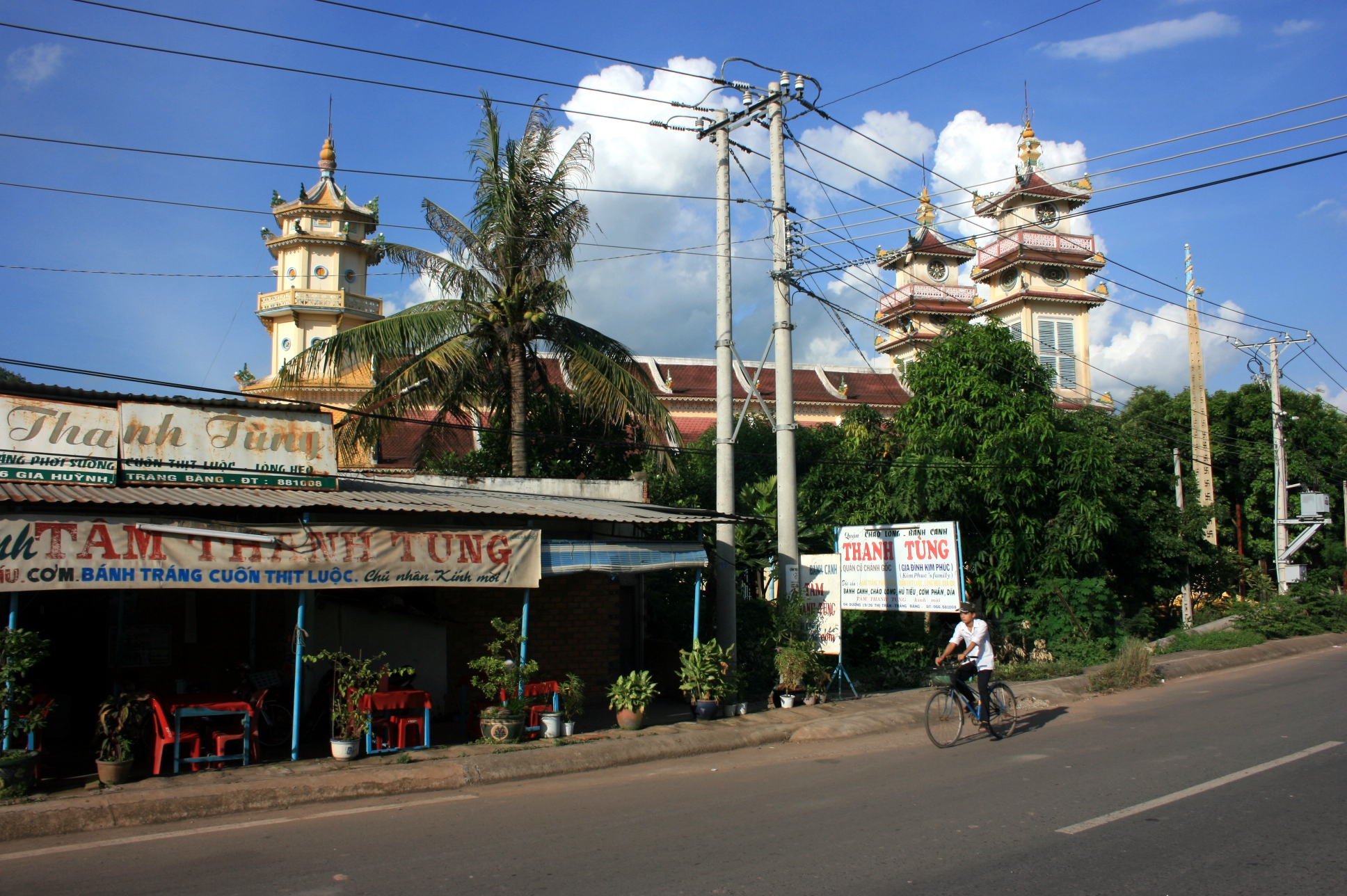 Road side in the town of Trang Bang, Vietnam, near the former home of Kim Phuc. The restaurant in the picture is operated by members of Kim Phuc's family.